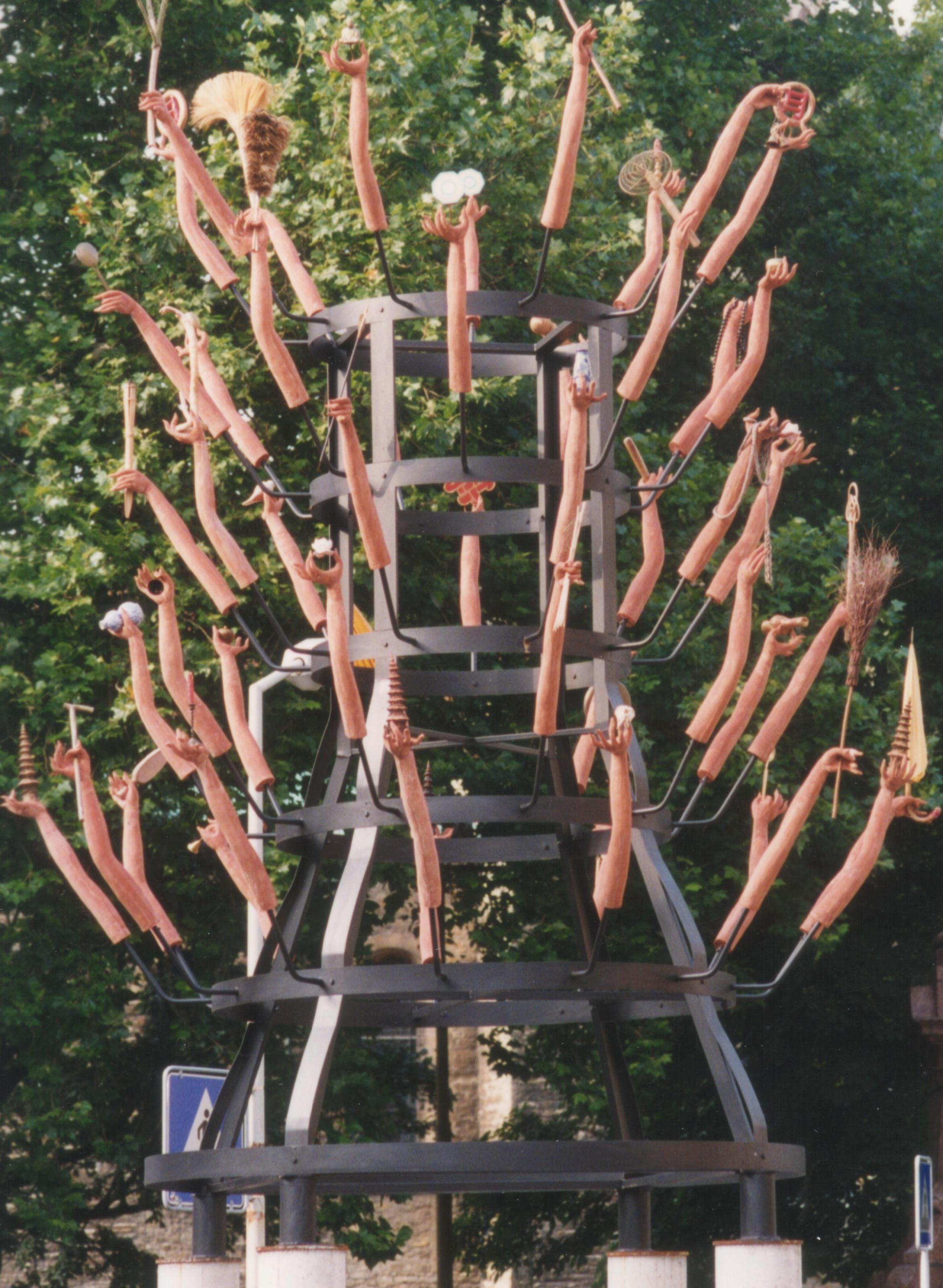 Foto of the Sculpture "100 Arme der Guan-Yin" by Huang Yong Ping, taken in Muenster, Germany during "Skulptur.Projekte in Muenster 1997